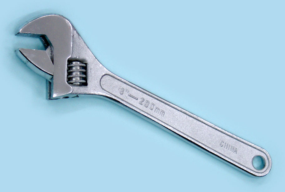 Adjustable wrench or adjustable spanner. Made in China.